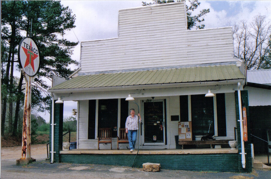 Causeyville General Store (AKA Bolsick's Store) in the Causeyville Historic District of Causeyville, Mississippi.